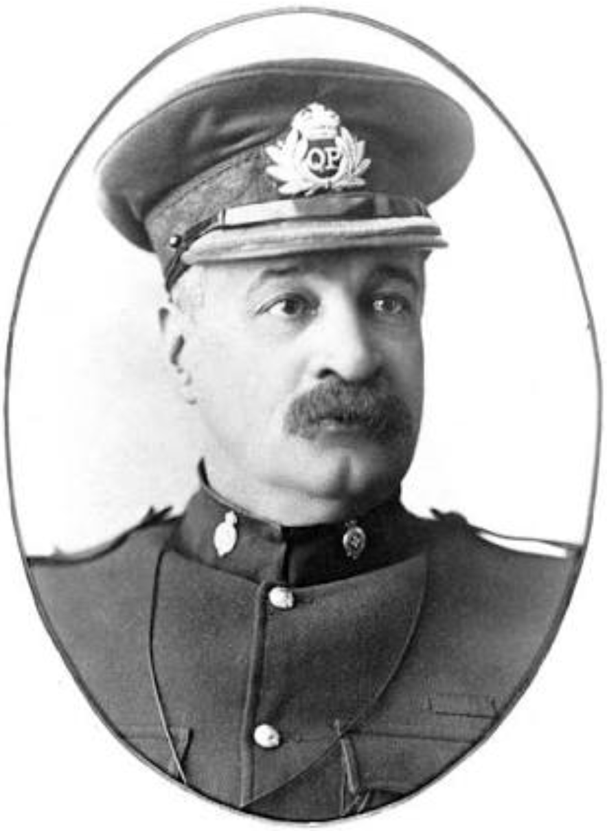 portrait of Frederic Urquhart